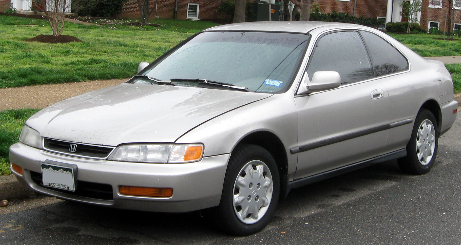 1996-1997 Honda Accord photographed in Washington, D.C., USA.